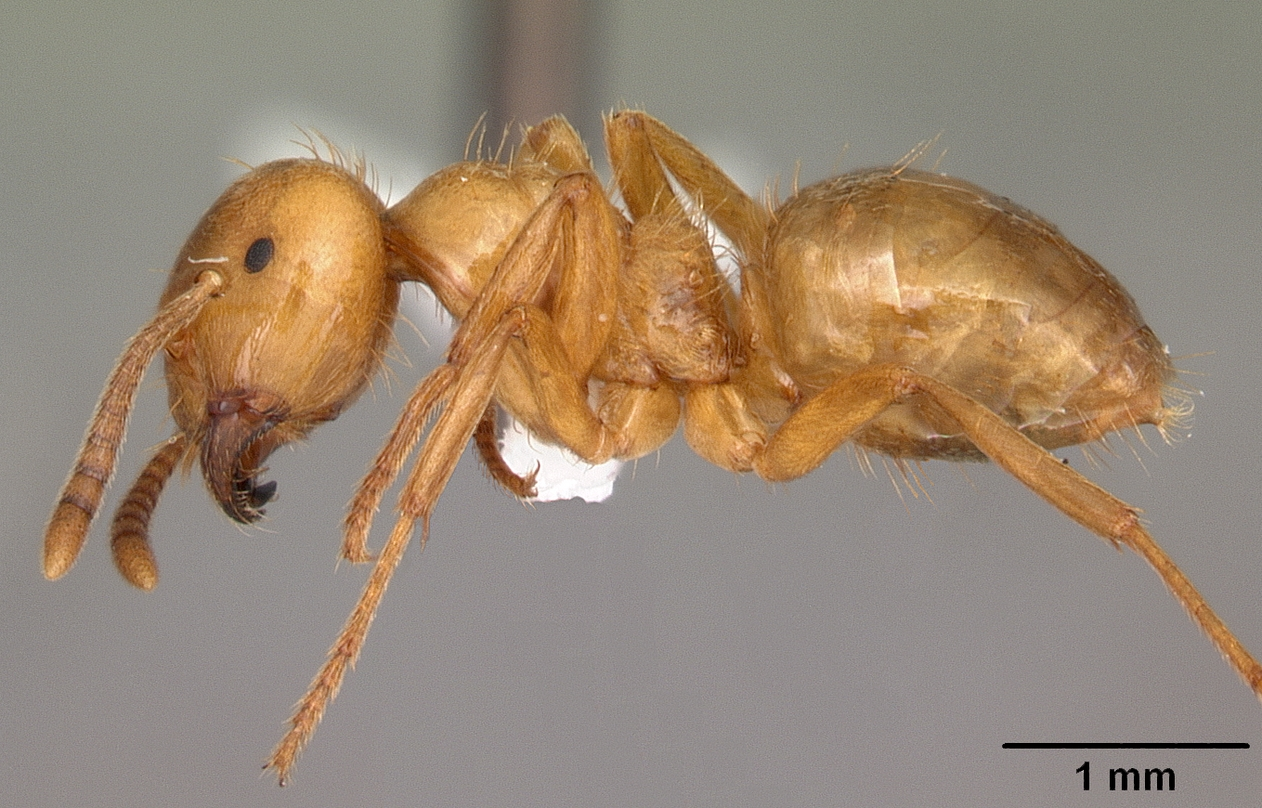 Profile view of ant Lasius interjectus specimen casent0102696.